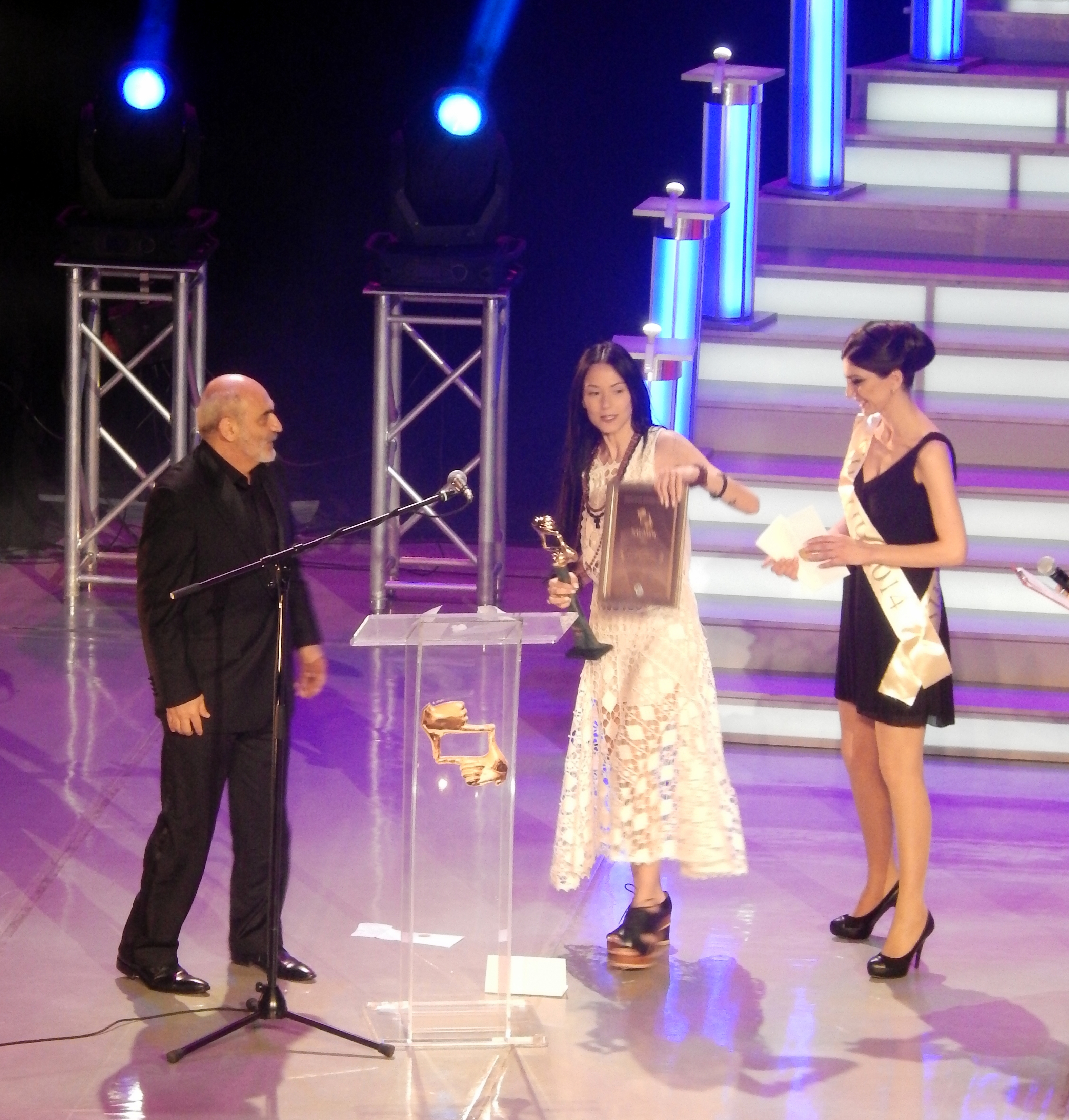 Lucie Abdalyan receives HAYAK Award